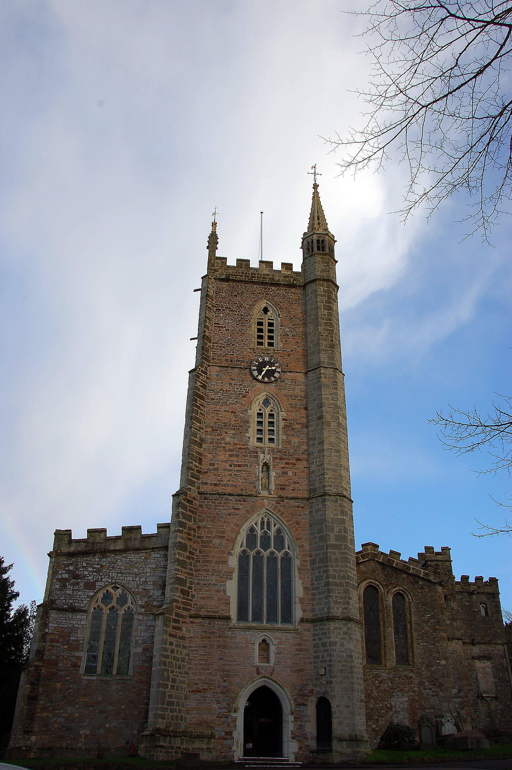 Holy Trinity parish church, Westbury-on-Trym, Bristol, England, seen from the west